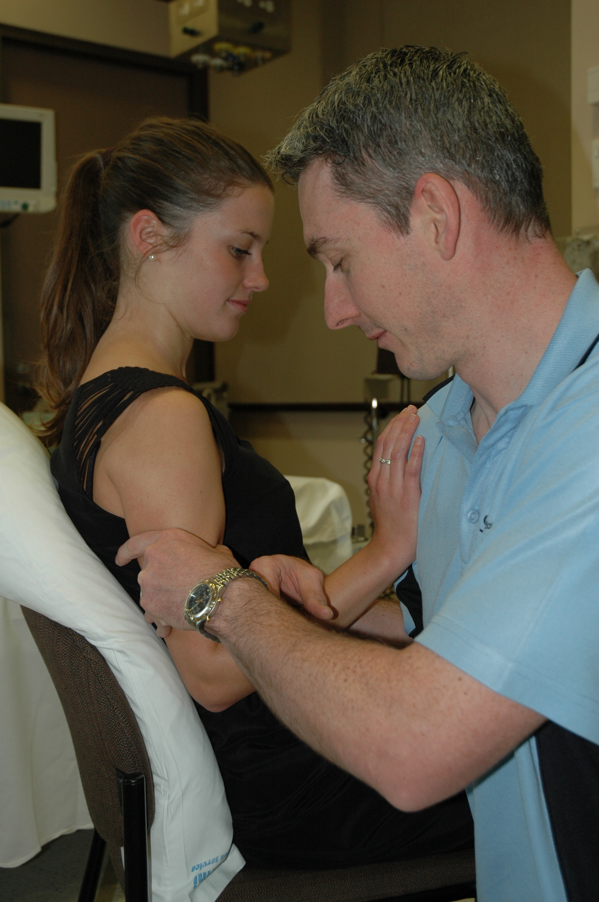 Biceps massage for Cunningham Technique - performed with scapula retracted, humerus adducted, elbow bent, and a 'hold' (not traction)